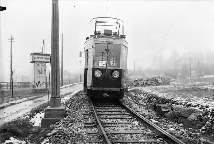 Ekebergbanen tram at Simensbråten (1013&ndash:1016 series)